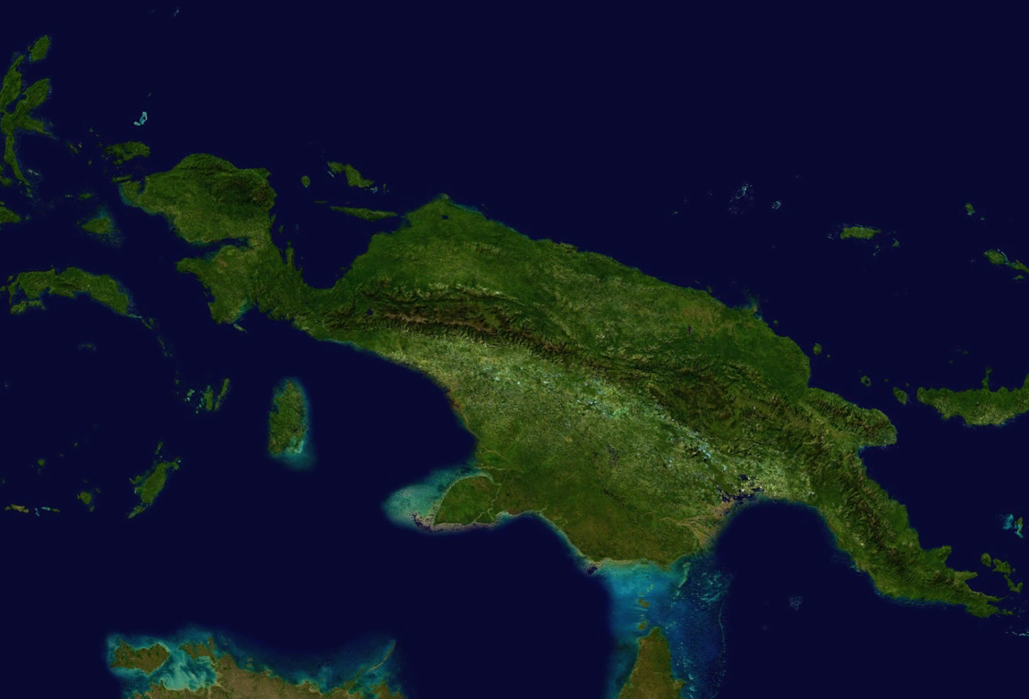 Satellite picture of New Guinea